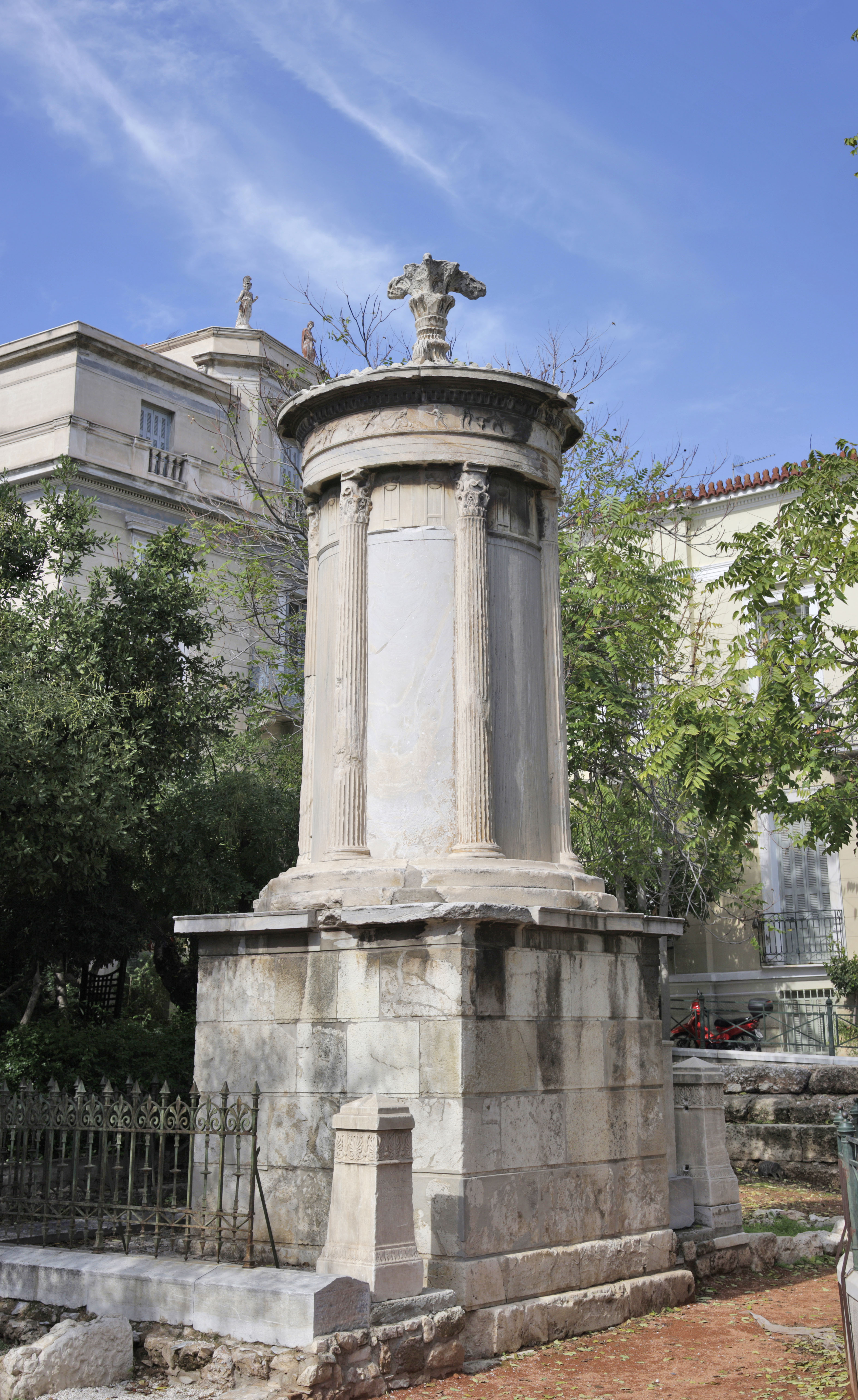 Choragic Monument of Lysicrates